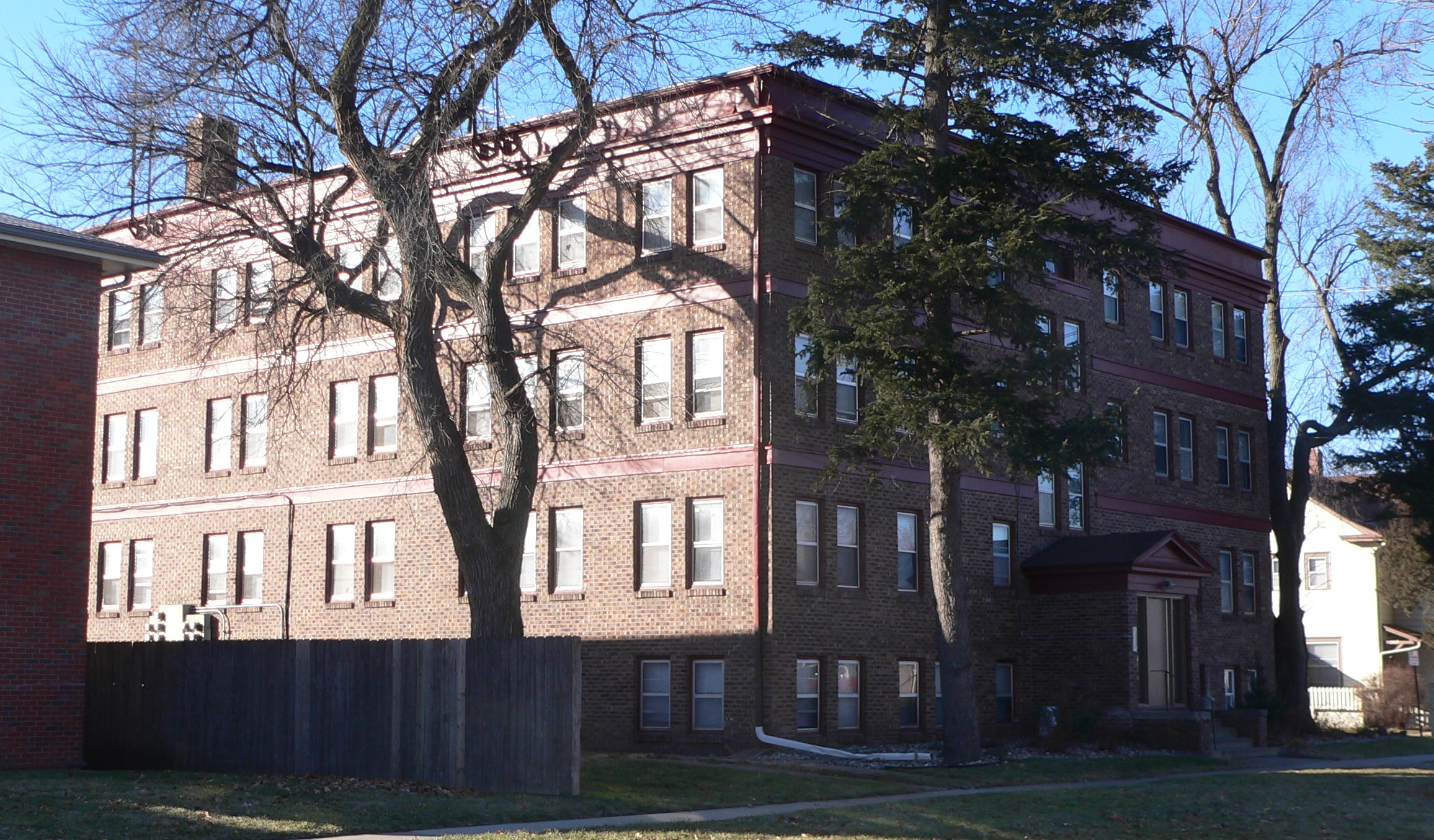 St. Charles Apartments, located at 4717 Baldwin Avenue in Lincoln, Nebraska; seen from the northeast.